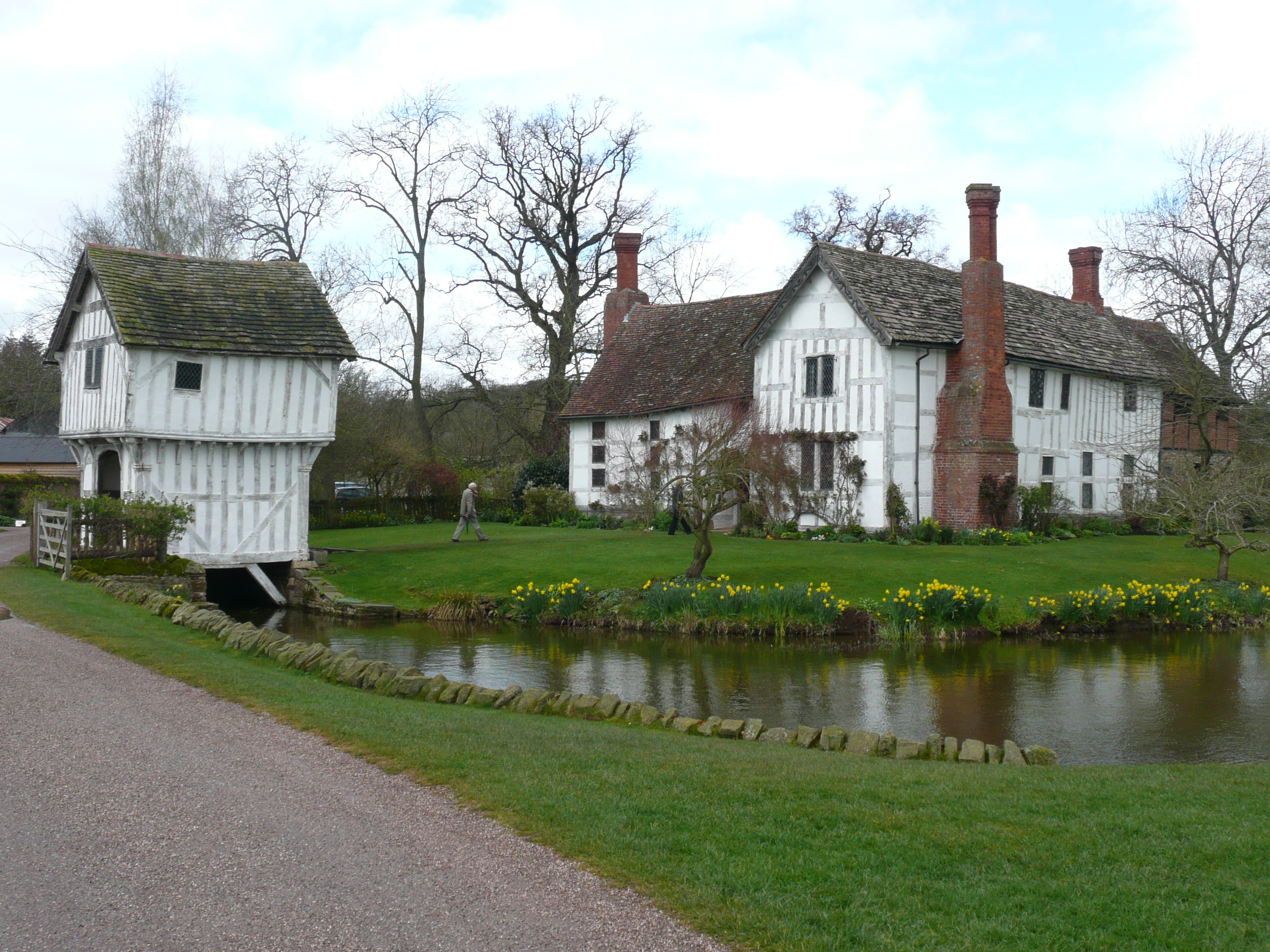 The Lower Brockhampton Estate Manor House